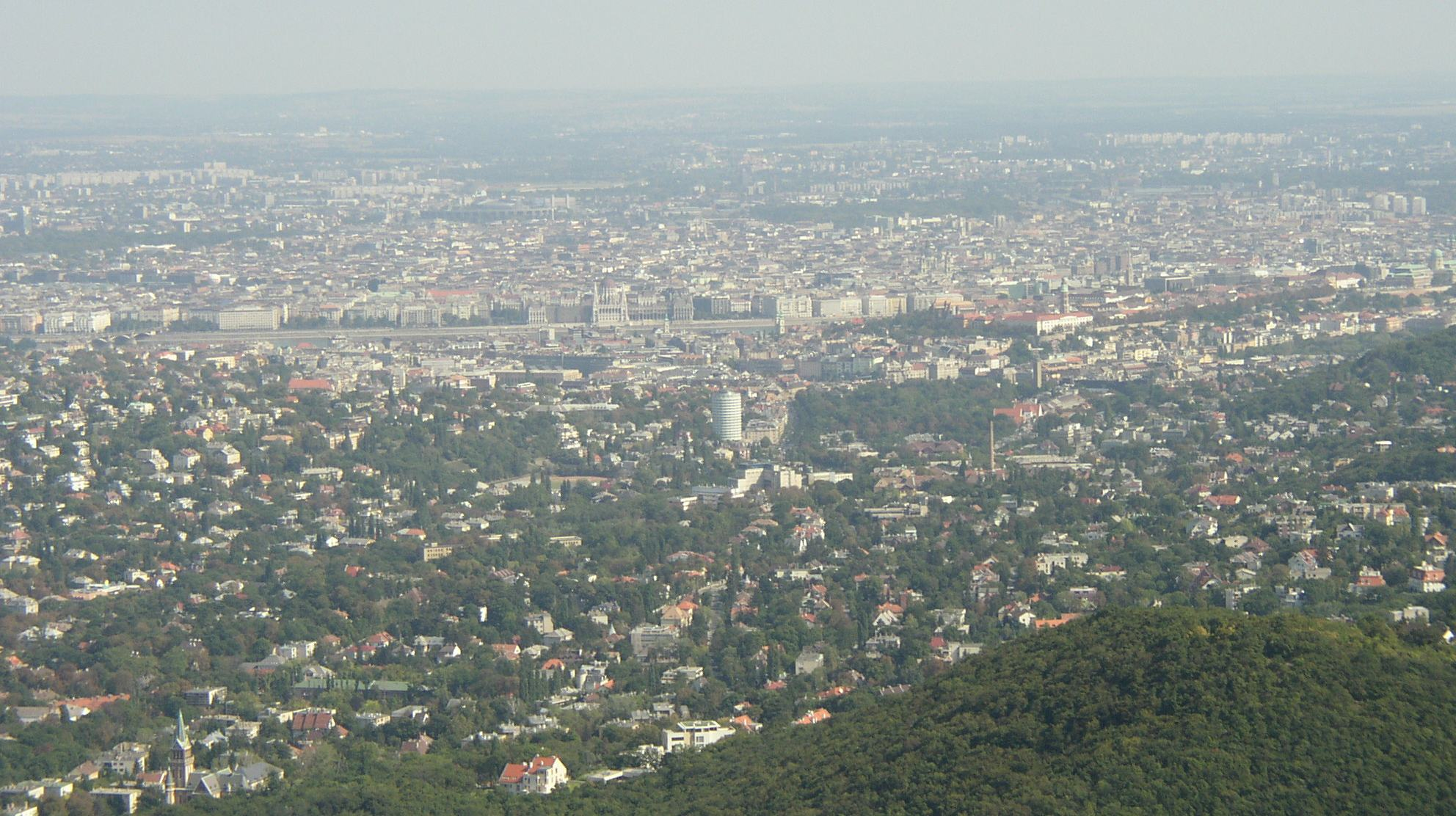 Budapest view from far far away, shot by me. In the middle you see the Parliament, and the (horizontal) line of the Danube which splits Buda from Pest. The far end is Pest and the closer, greener side is Buda. The photo was shot from the Erzsébet (Elisabeth) viewpoint of János-hegy (János hill).